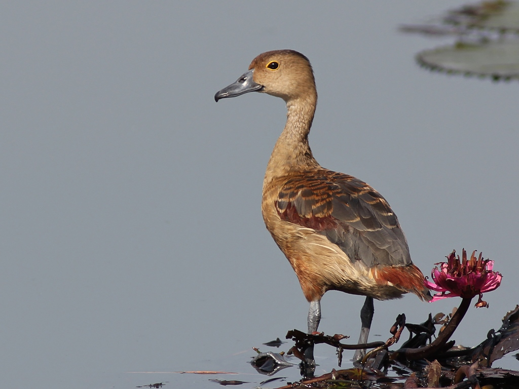 A clean shot of a Lesser Whistling Duck Dendrocygna javanica. They are found in freshwater wetlands with good vegetation cover and often rest during the day on the banks or even on the open sea in coastal areas. They are very nocturnal and often rest during the day. The outermost primary feather has the inner vane modified. They produce a very prominent whistling sound while flying.